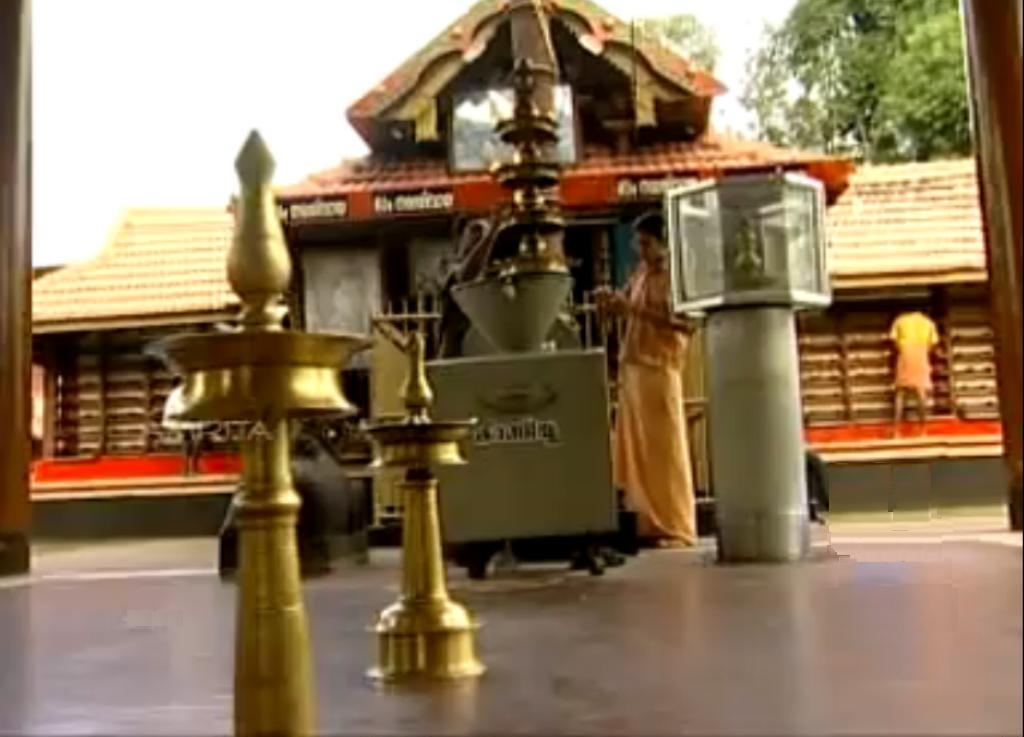 Kanjiramattom Siva Temple Thodupuzha